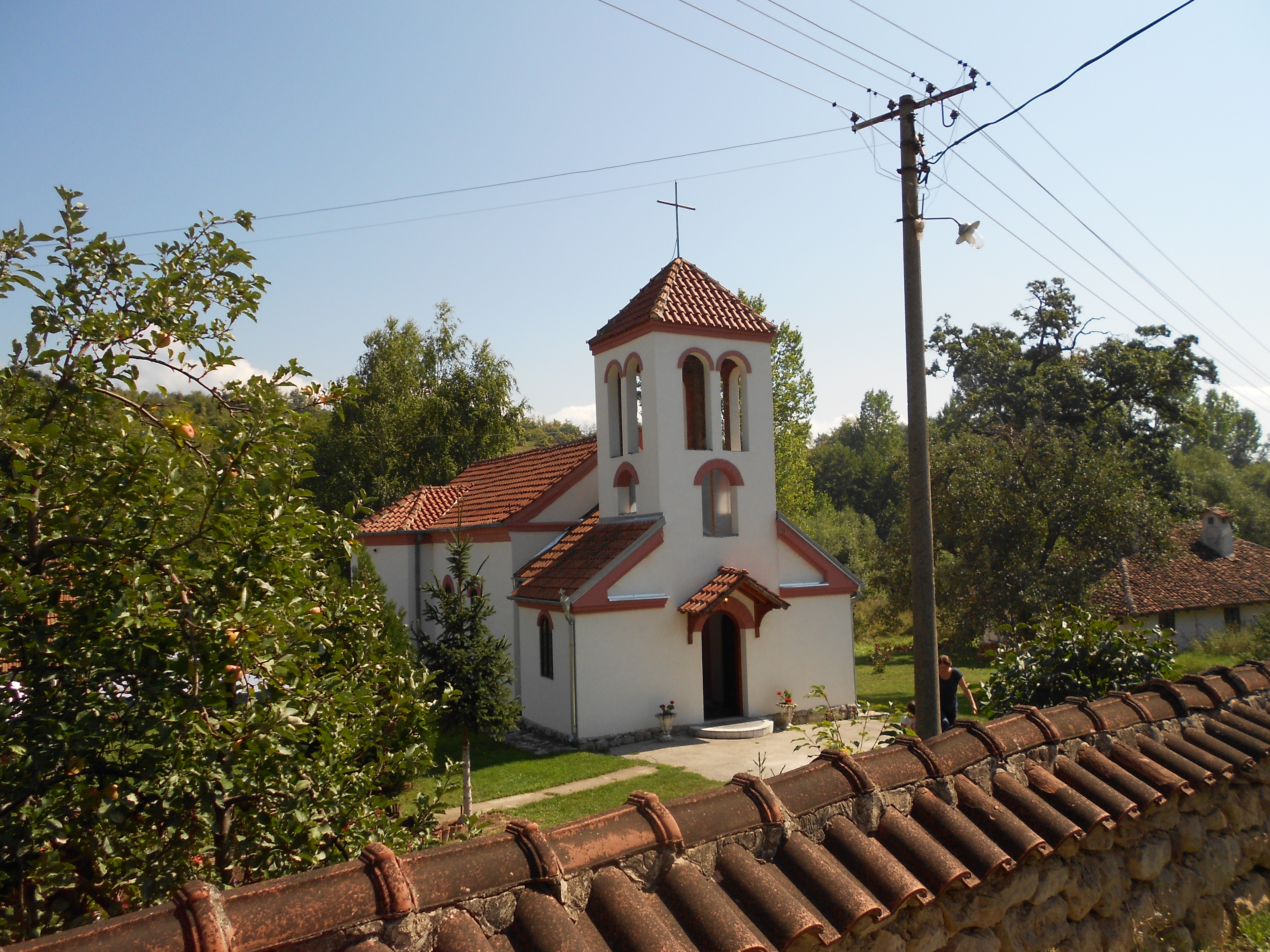 Church, Josanica